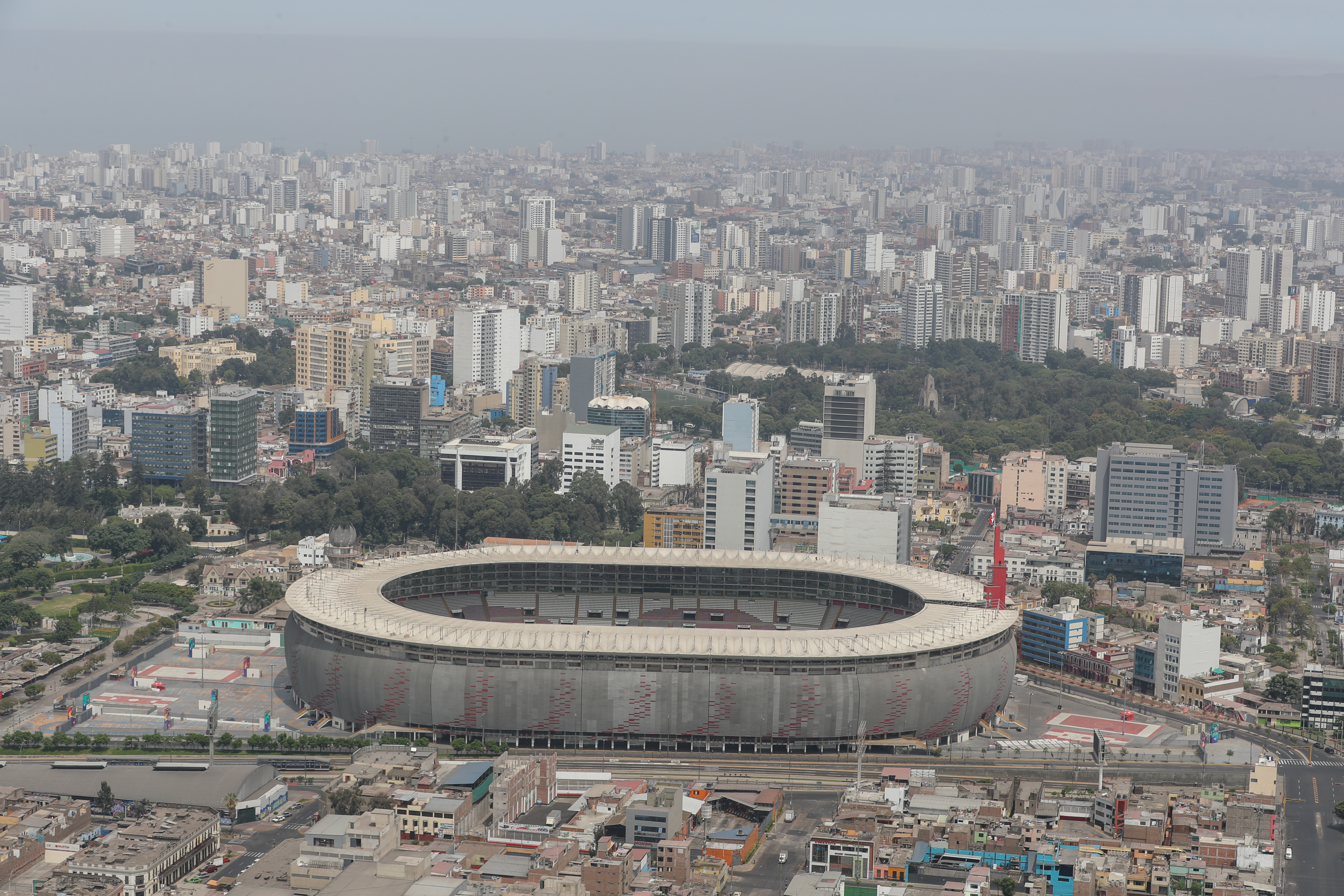 Estadio Nacional del Perú in 2020